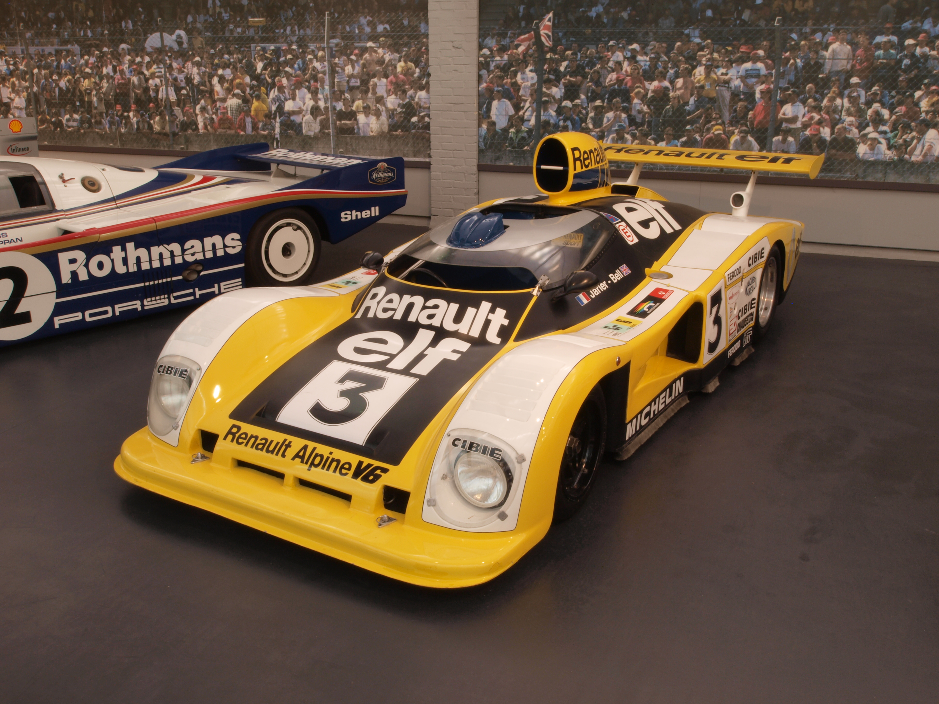 Photographed at the Cité de l’Automobile, France. OLYMPUS DIGITAL CAMERA